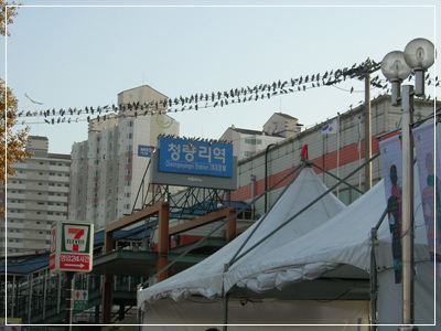 Aboveground Cheongnyangni station